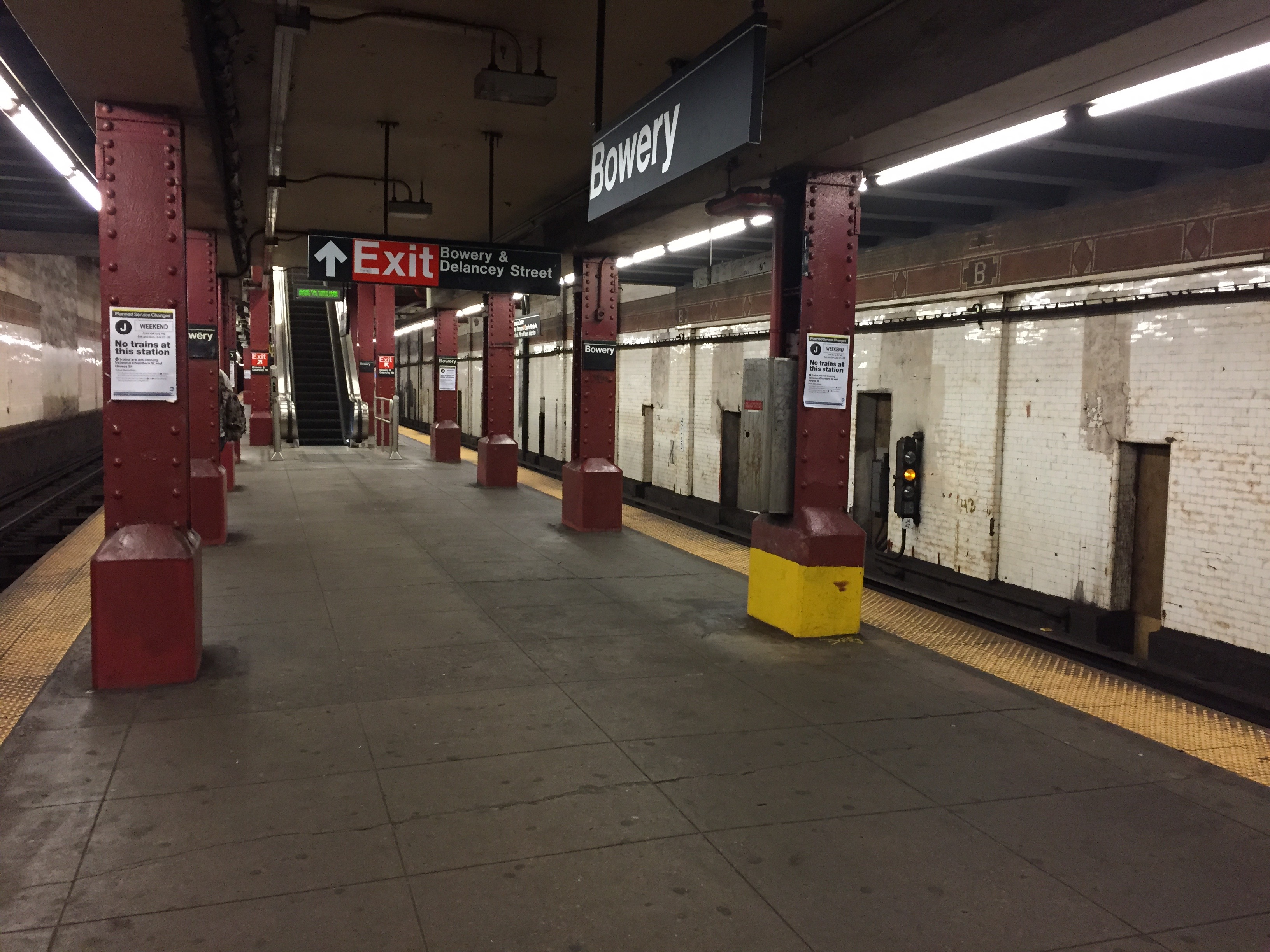 Platform at the Bowery Station.